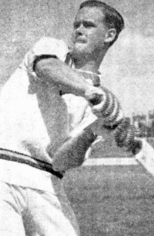 Brian Close, batting in practice nets on 12 October 1950 in Perth, Australia.